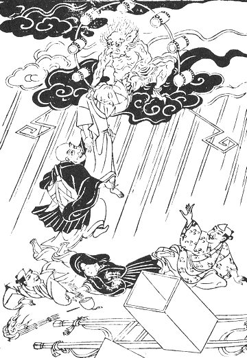 a demon who deprives funeral of corpse in Echigo Province (越後上田の庄にて、葬りの時、雲雷きたりて死人をとる事) from the Kii-zatsudan-shū (奇異雑談集)